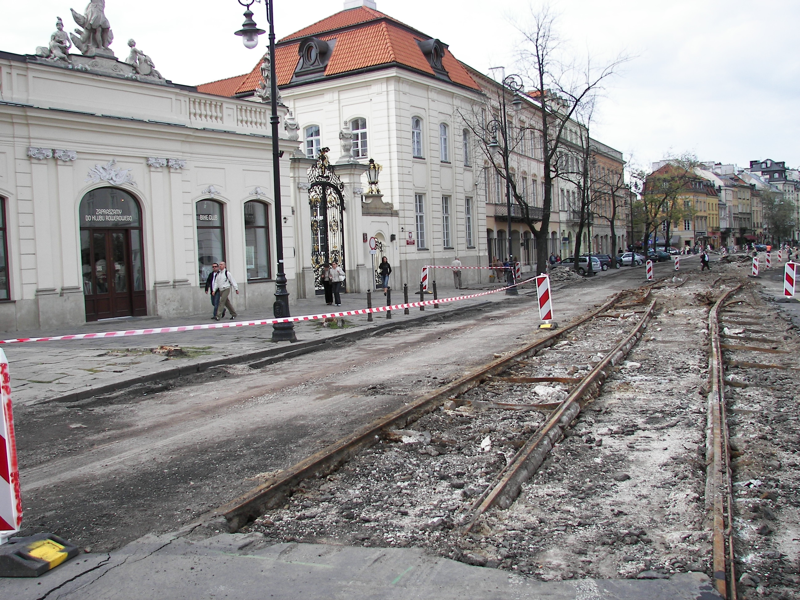 the Rebuilding of Krakowskie Przedmieście Street in Warsaw, Poland (2006-2007)